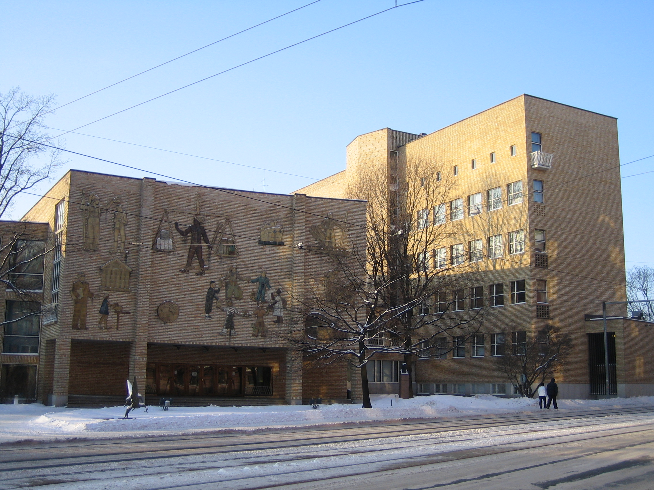 Helsinki School of Economics, Helsinki, Finland